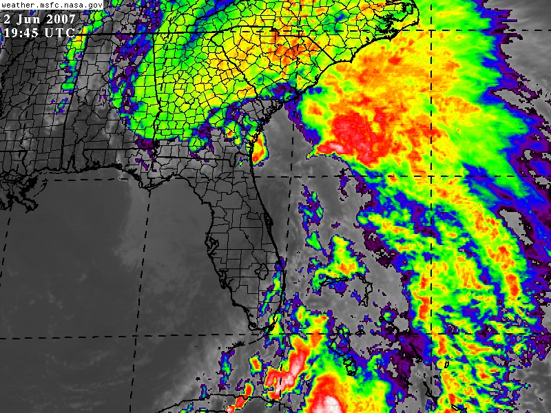 Tropical Depression Barry over Florida after landfall, image from - NASA image